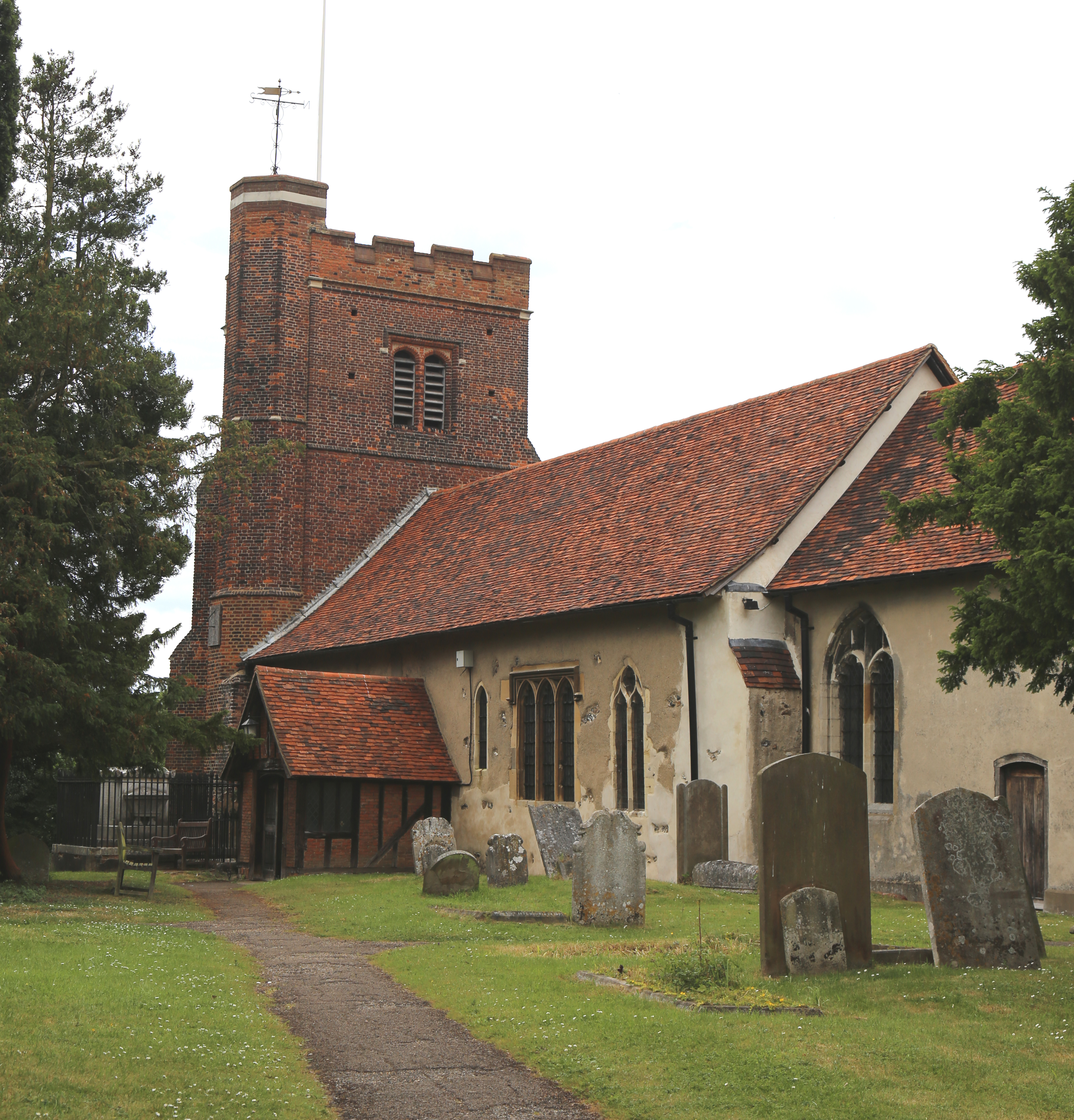 All Saints' Church, Nazeing, Essex, England ~ battlemented brick tower and rendered flint rubble walls along a path from the south-east over the graveyard